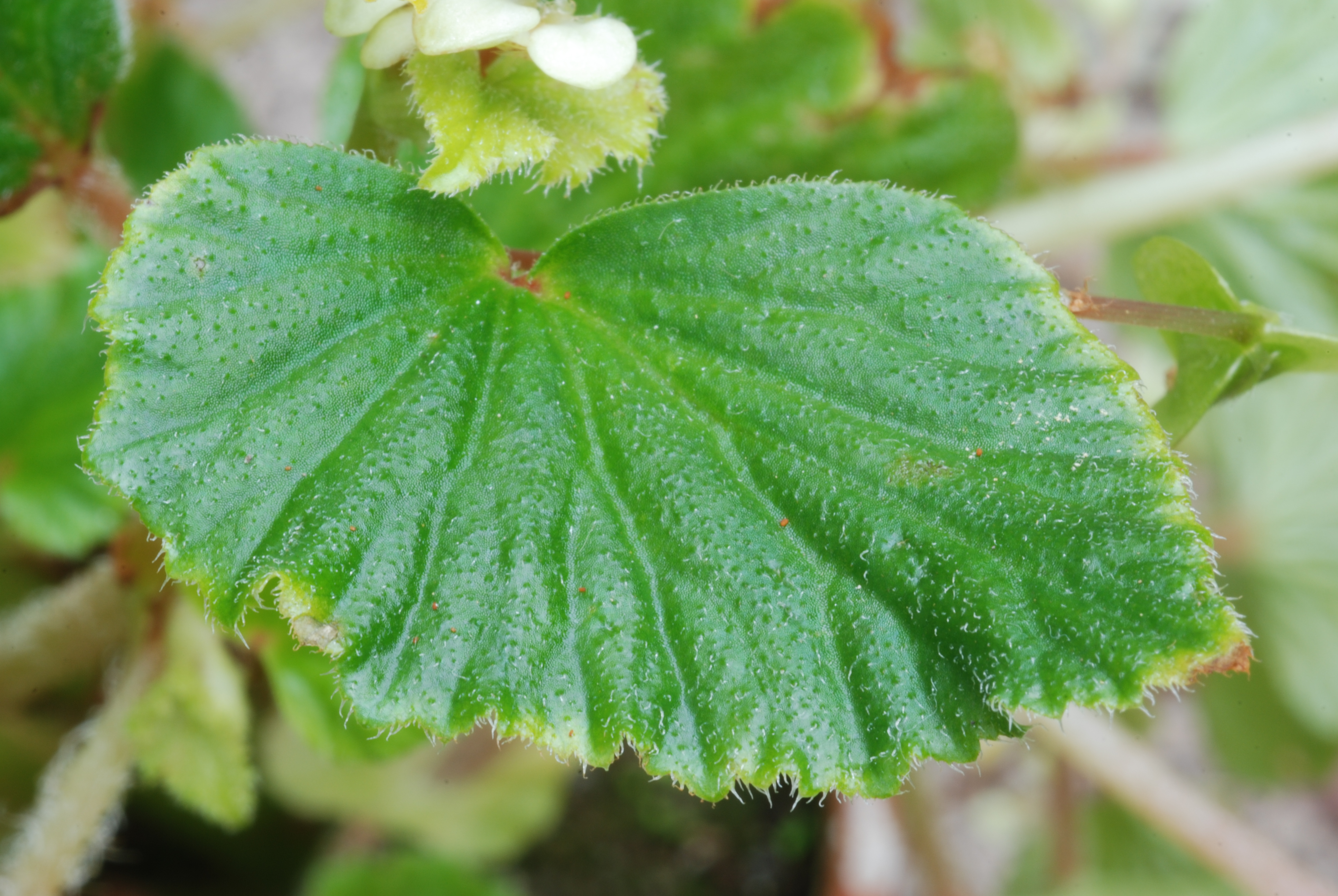 Begonia hirsuta Aubl. Family : Begoniaceae Accession : 20071180-37 National Botanical Garden of Belgium Meise Botanic Garden Native nameNationale Plantentuin van België / Jardin Botanique National de BelgiqueLocationDomein van Bouchout / Domaine de BouchoutNieuwelaan 381860 MeiseBelgiumCoordinates50° 55′ 42.28″ N, 4° 19′ 36.78″ E Established1826: established, 1870: became publicly owned,Web page control : Q3052500 VIAF: 159423716 ISNI: 0000 0001 2195 7598 LCCN: n50078011 NLA: 35880480 SELIBR: 120680 WorldCat institution QS:P195,Q3052500 Created under the volunteer photographer program at the National Botanical Garden of Belgium.